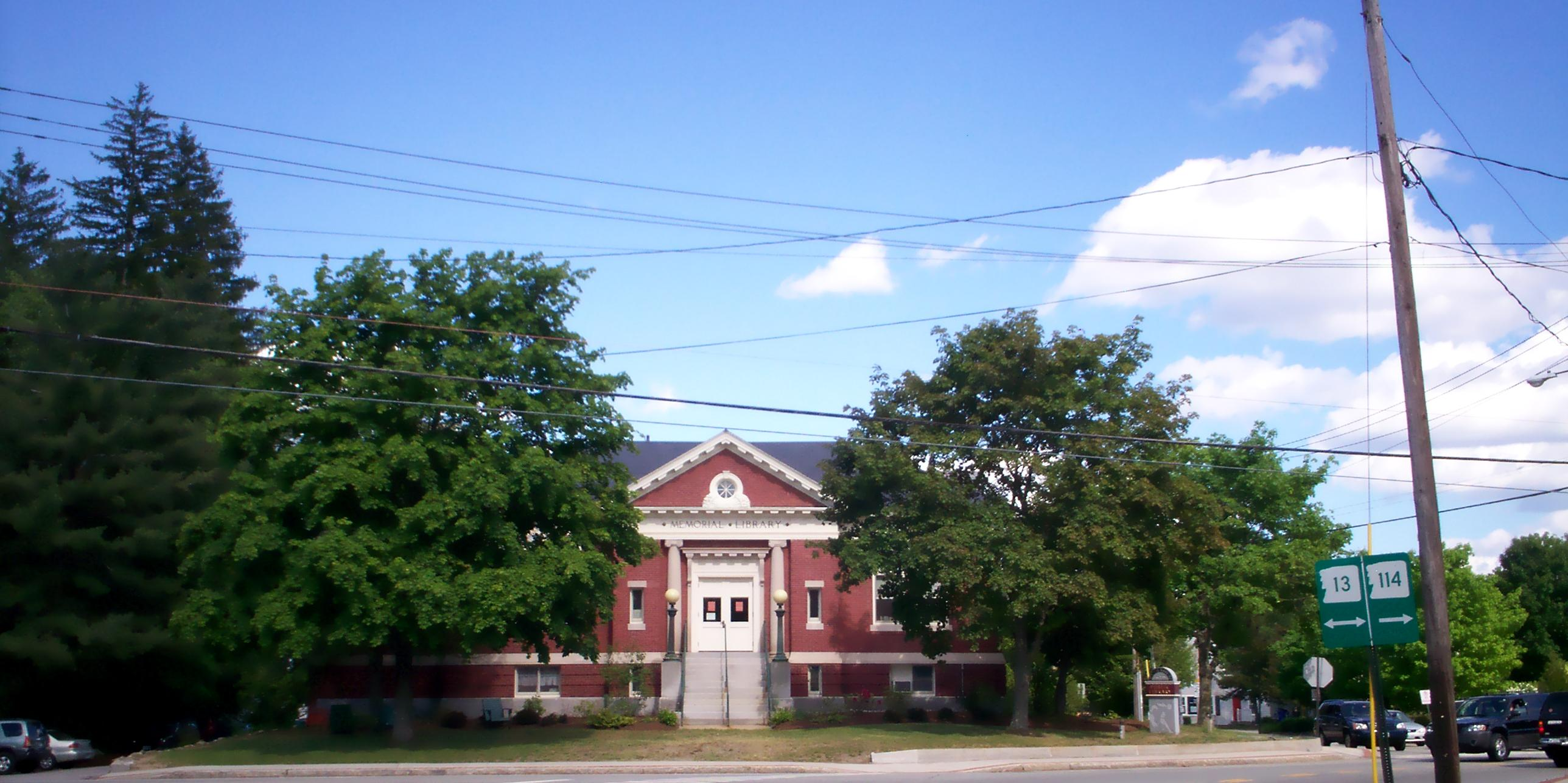 A view of the main entrance to the Goffstown Public Library in Goffstown, New Hampshire at the junction of New Hampshire routes 13 and 114.